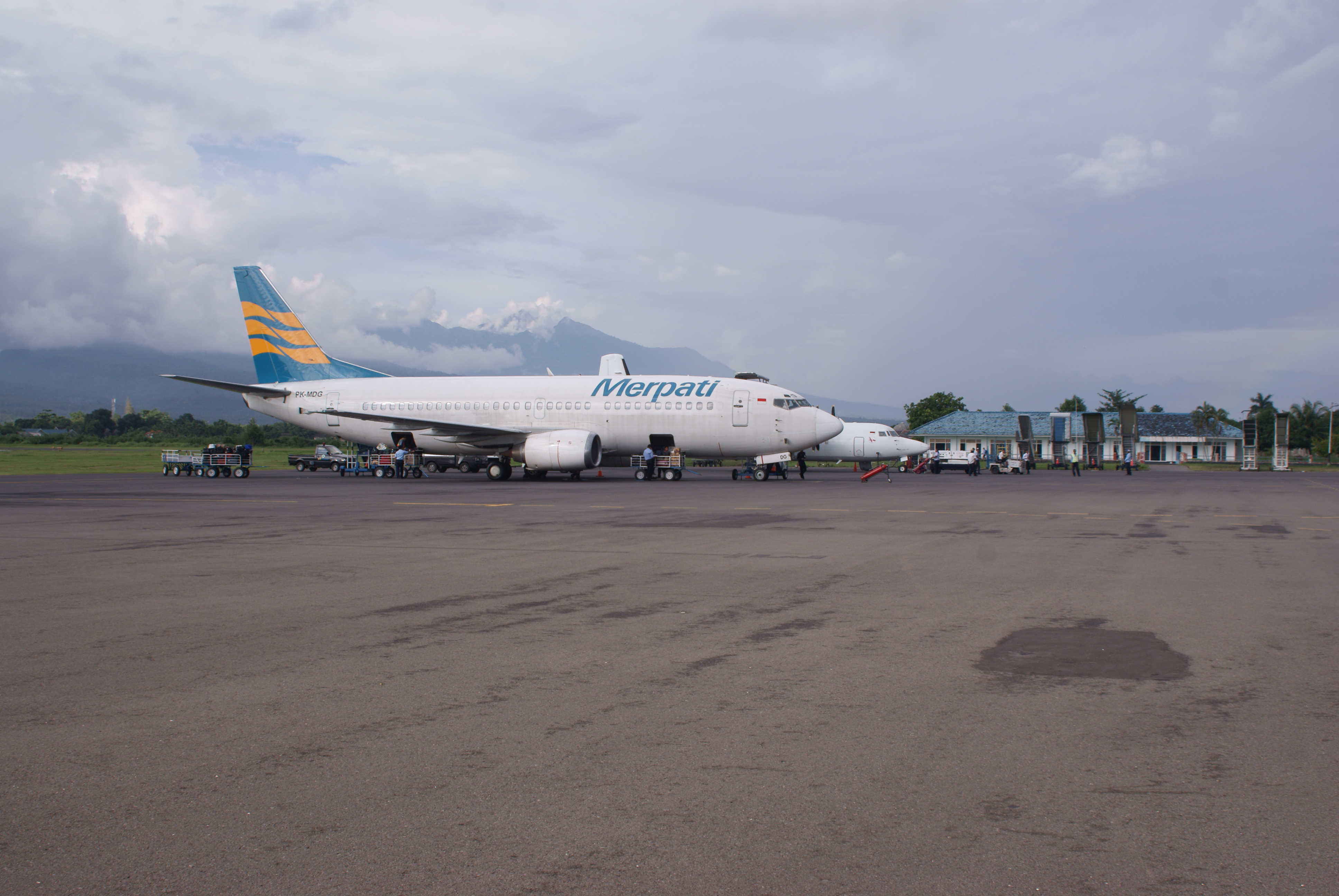 Merpati B-737 PK-MDG Selaparang Airport, Ampenan, Lombok